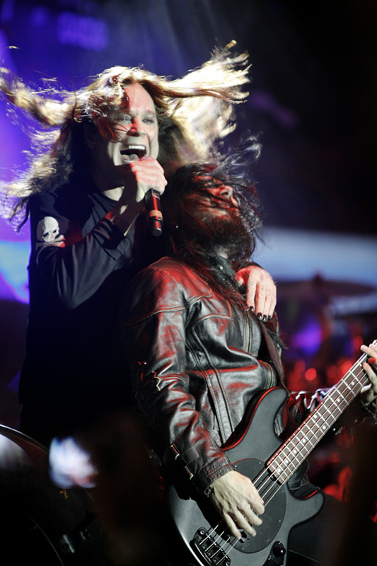 Ozzy Osbourne performing live with his bassist Blasko.